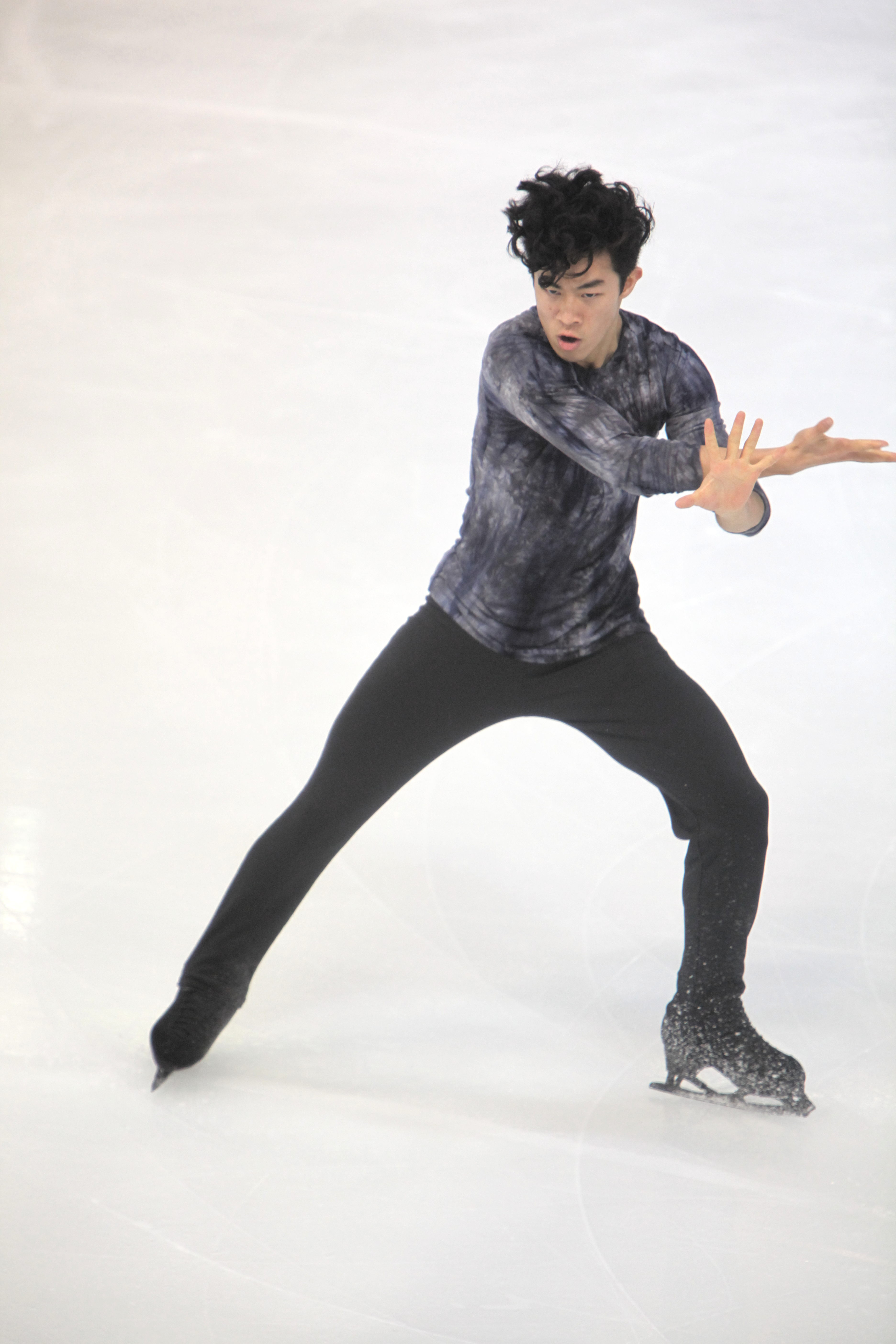 Nathan Chen during the men's singles free skating at the Internationaux de France de Patinage 2018.